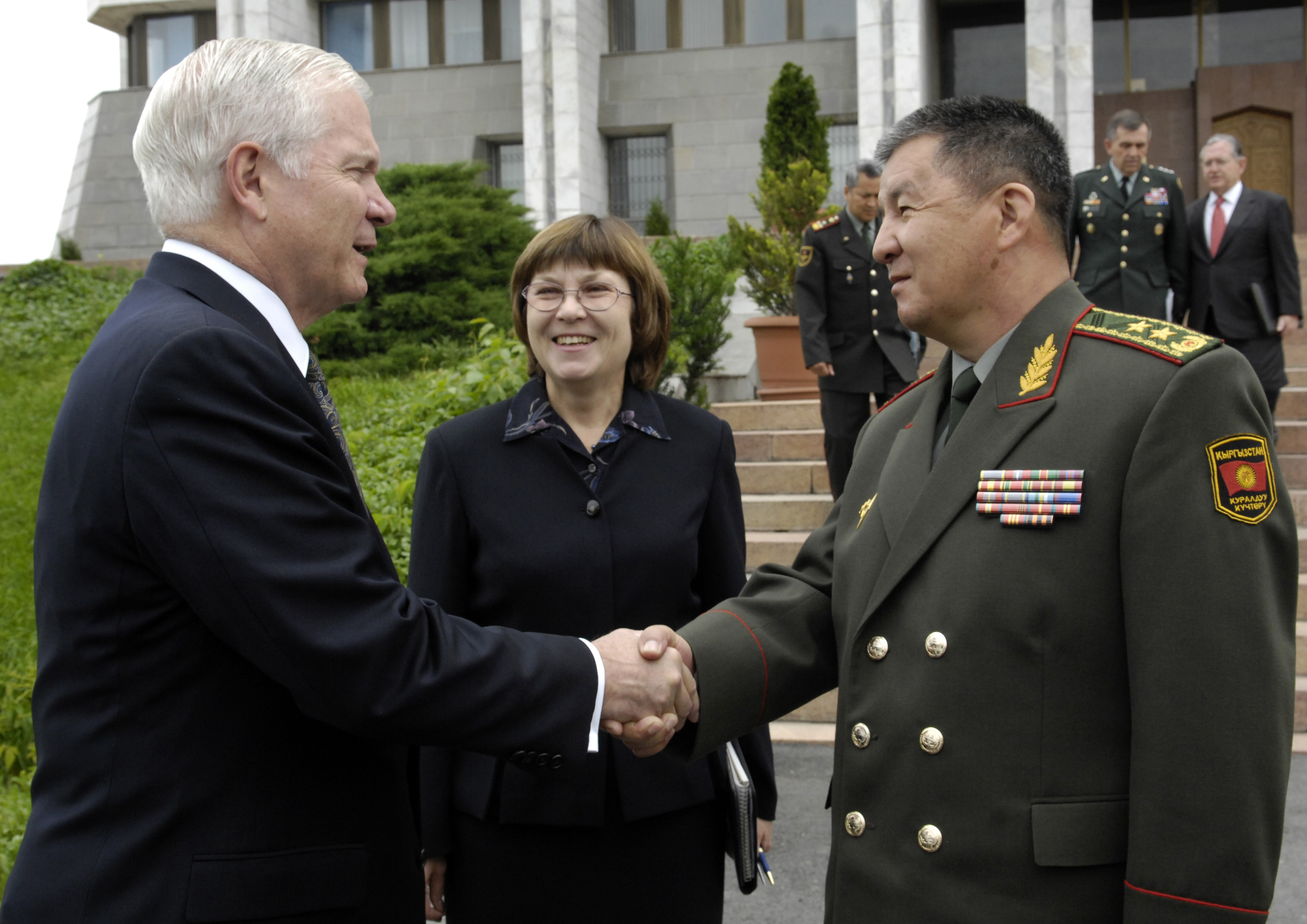 Secretary of Defense Robert M. Gates speaks with Krygyzstan Minister of Defense General-Lieutenant Ismail Isakovich Isakov before leaving the Presidential government building in Bishkek, Kyrgyzstan, June 5, 2007.